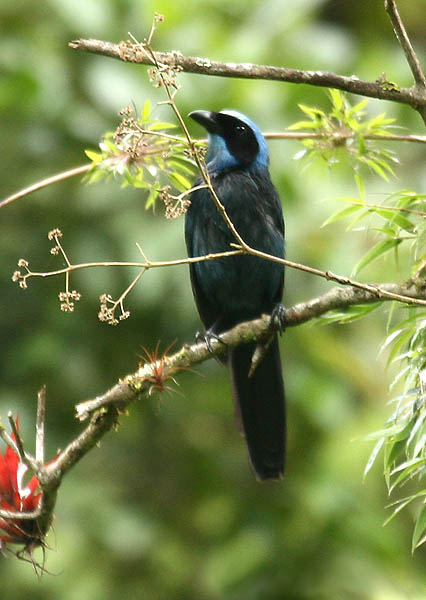 Beautiful Jay (Cyanolyca pulchra). It was with a flock of Turquoise Jays at higher-than-normal range for the species in Old Nono-Mindo Rd, NW Ecuador.